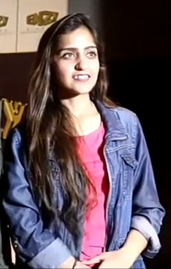 Asees Kaur Live